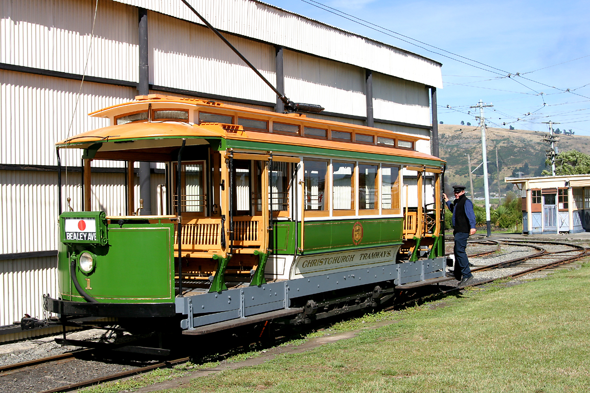 Christchurch Stephenson Tram No 1 turning at the end of the Ferrymead Tramway